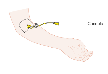 Diagram showing a cannula